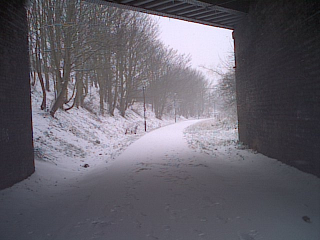 On the great Eastern Linear Park. The Former path of the Lowestoft to Great Yarmouth Railway intersects this grid square. A cycle path along an old railway line, all the original bridges are still intact.